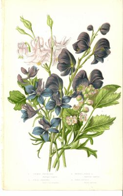 This is a chromolithograph by Anne Pratt 1806- 1893. The artist was born in Strood Kent. The image is of a Columbine and Larkspur.